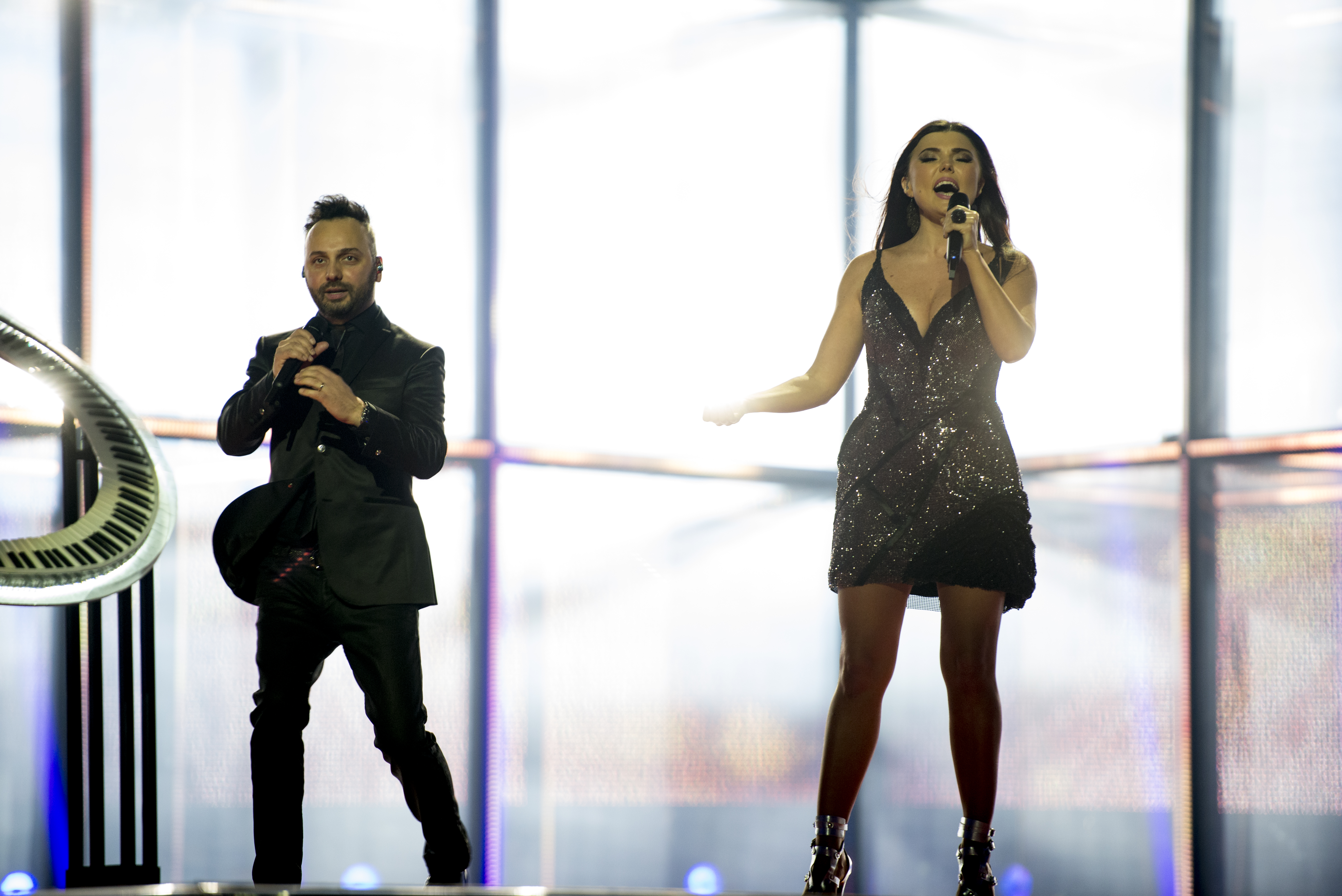 Paula Seling and Ovidiu Cernăuțeanu representing Romania with the song "Miracle" during the first dress rehearsal of the second semi final of the Eurovision Song Contest 2014 Copenhagen. (Help translate this text)